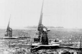 Japanese Type 11 75 mm AA gun